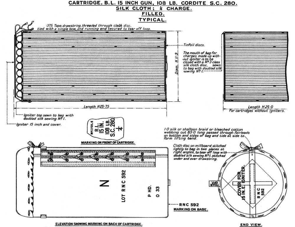 Diagram of British Cordite S.C. 280 cartridge, 1/4 charge, 108 lbs. For BL 15 inch Mk I naval gun.